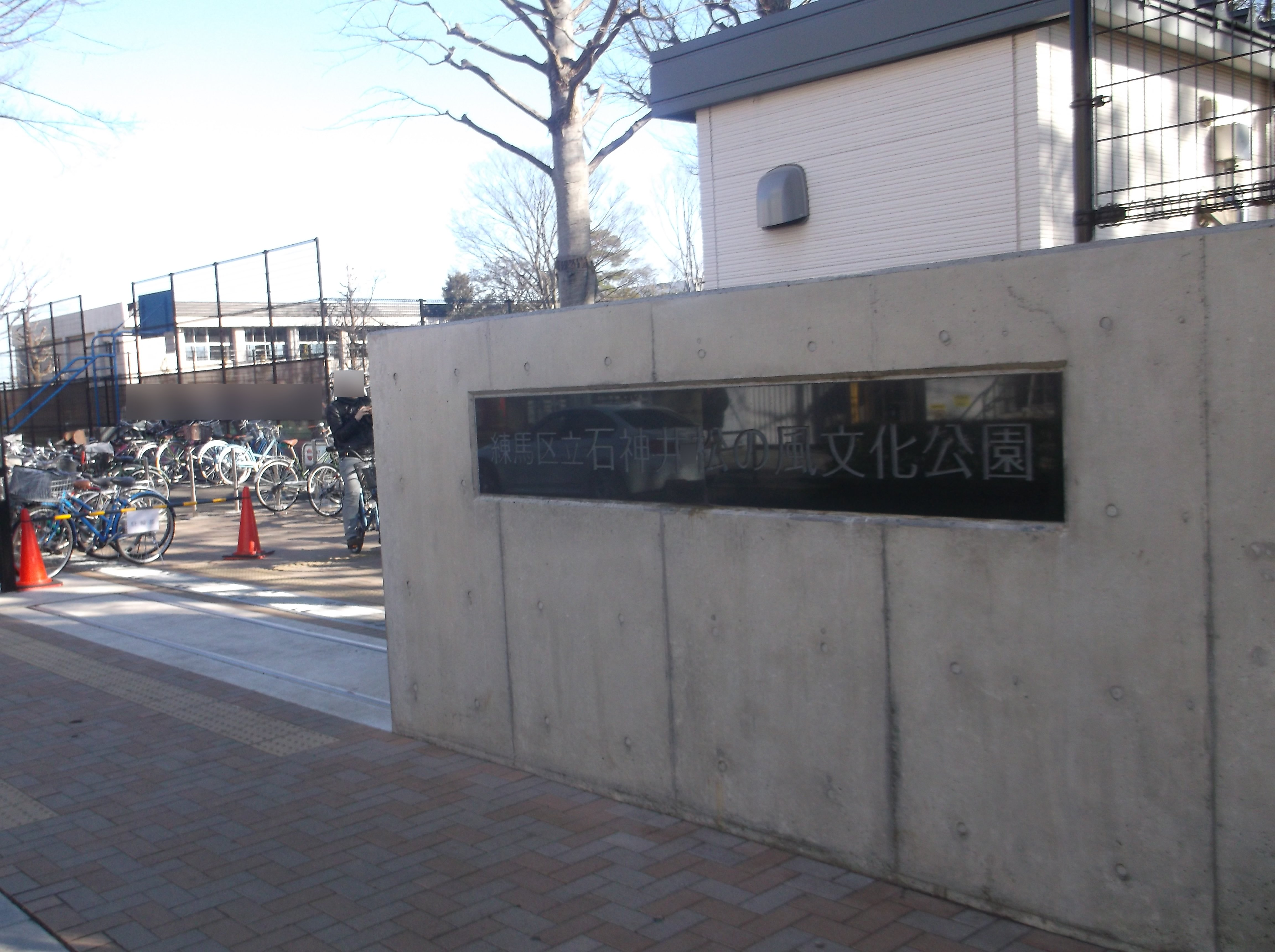 A photo of the entrance of "Shakuji Matsu no Kaze Bunka Park",Shakujiidai,Nerima-ku,Tokyo,Japan.